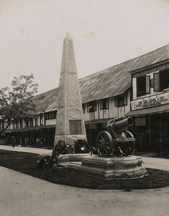 Description:Photos taken in connection with the Unveiling of the North Borneo War Memorial. May 8th 1923. See Dossier No. 332/5. Location: Jesselton, Borneo Date: 08 May 1923 Our Catalogue Reference: Part of CO 1069/517 This image is part of the Colonial Office photographic collection held at The National Archives. Feel free to share it within the spirit of the Commons. Please use the comments section below the pictures to share any information you have about the people, places or events shown. We have attempted to provide place information for the images automatically but our software may not have found the correct location. For high quality reproductions of any item from our collection please contact our image library